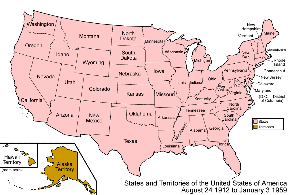 Map of the states and territories of the United States as it was from August 1912 to January 1959. On August 24 1912, the District of Alaska was organized as Alaska Territory. On January 3 1959, Alaska Territory was admitted as the state of Alaska.